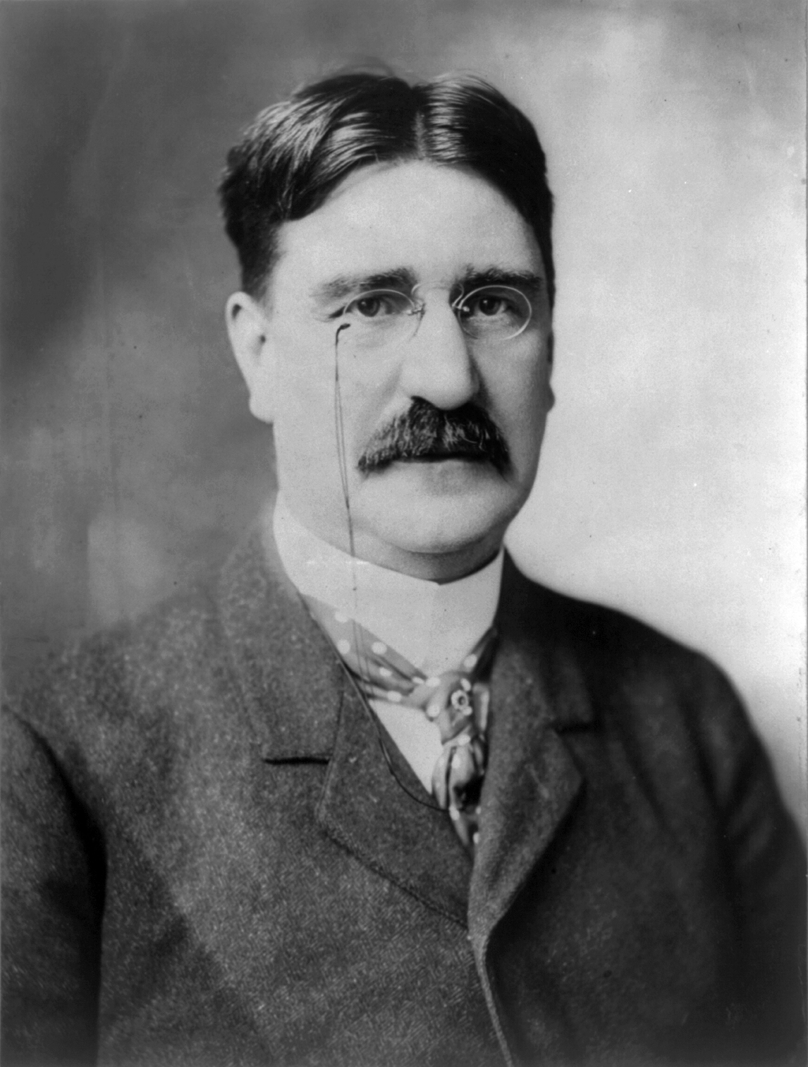 Robert J. Tracewell, bust portrait